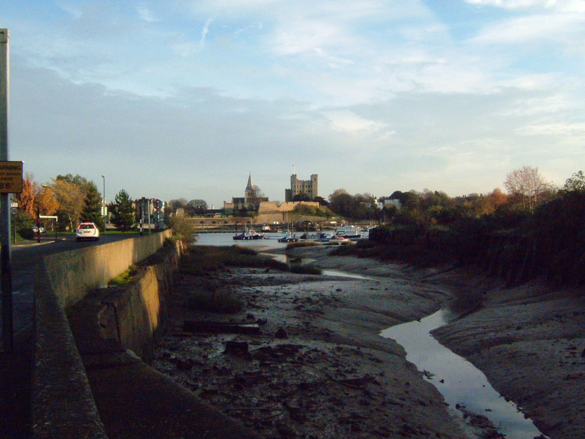 Jane's creek in 2006 is sandwiched between the Civic Centre and a Morrison's Supermarket, but previously was a centre of Strood's maritime life. Here we are looking along the creek, over the Medway towards Rochester Cathedral and castle.